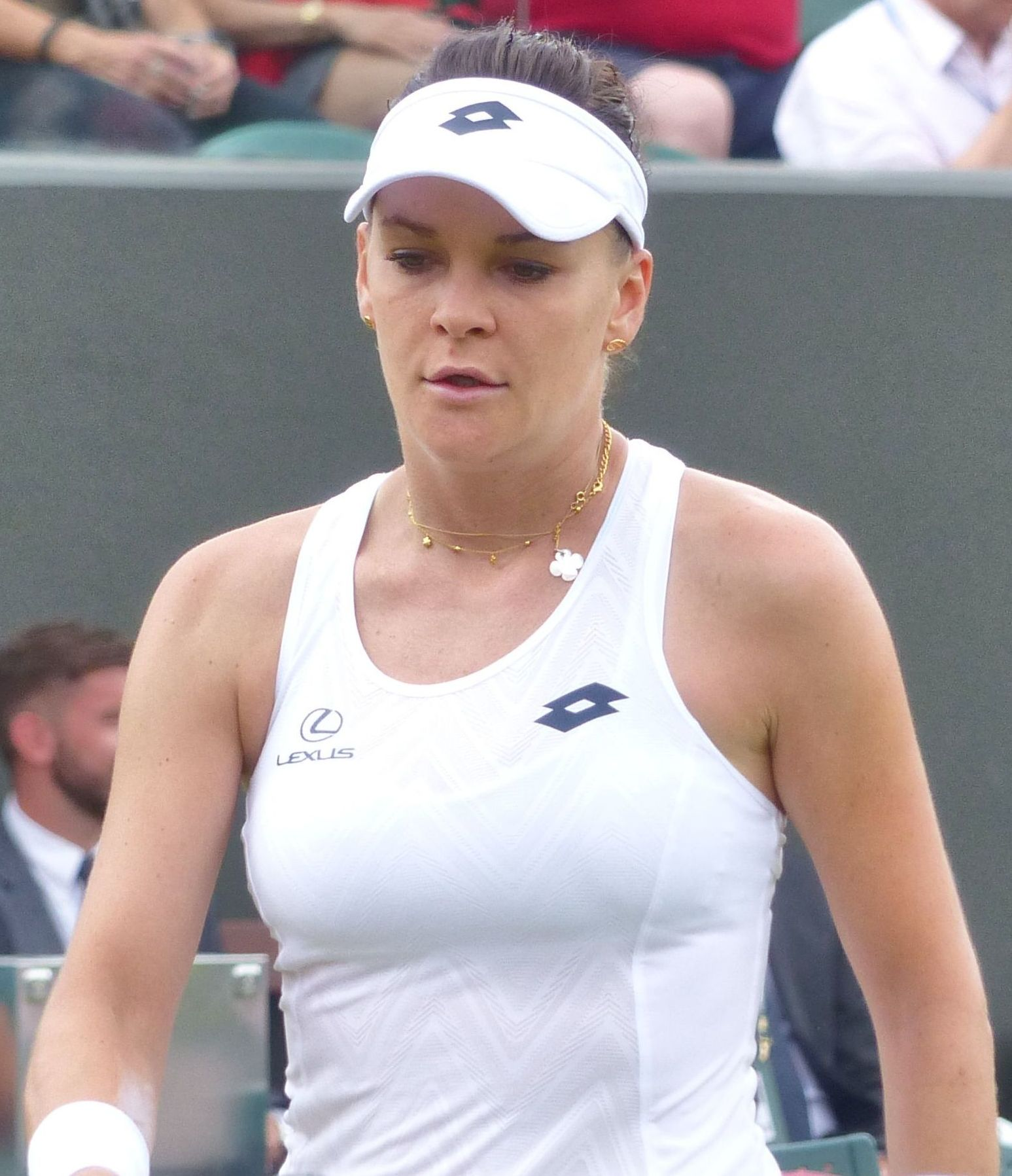 Agnieszka Radwańska playing at Wimbledon 2018